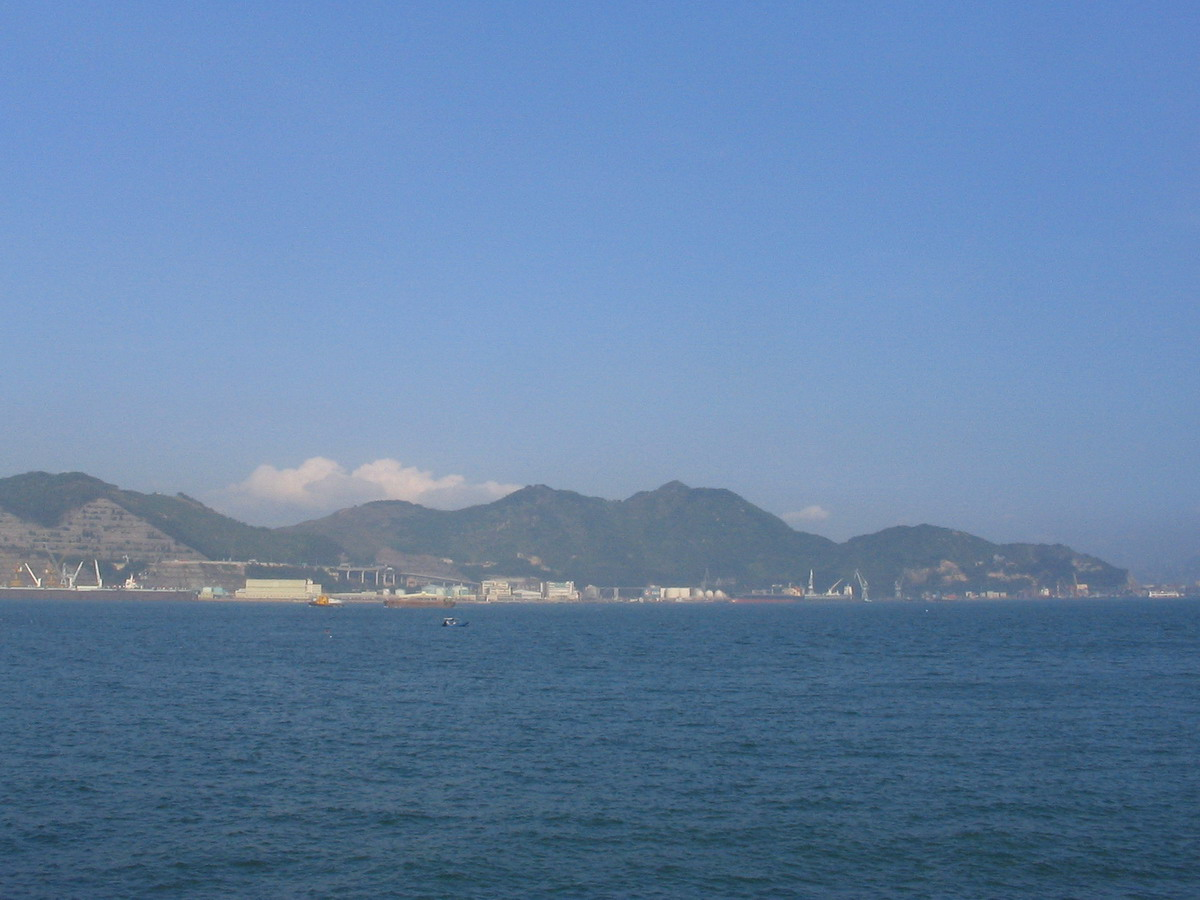 Southwest Shore of Tsing Yi Island